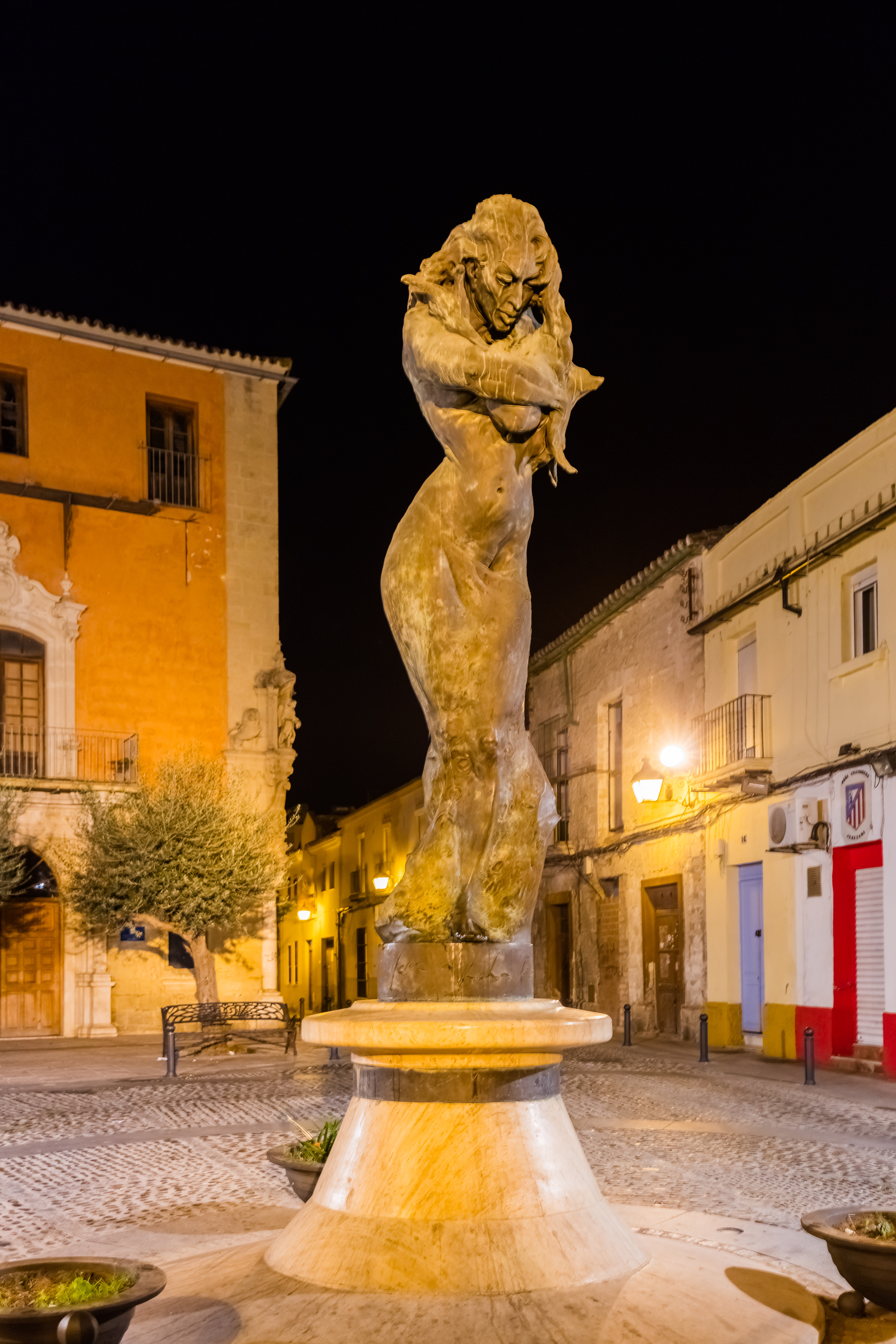 Monument to Lola Flores, Ramón de Cala St, Jerez de la Frontera, Spain